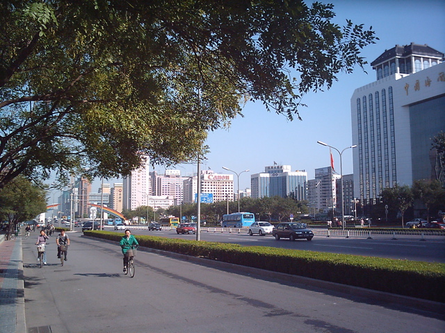 Chang'an Avenue (Jiannei portion) Taken by Wikipedian DF08 on October 2, 2004